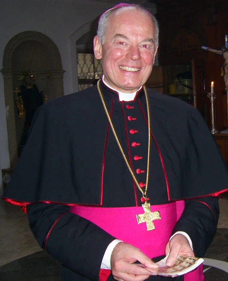 Bishop Anton Losinger, photographed in St Mang Basilica, Füssen, Bavaria, Germany